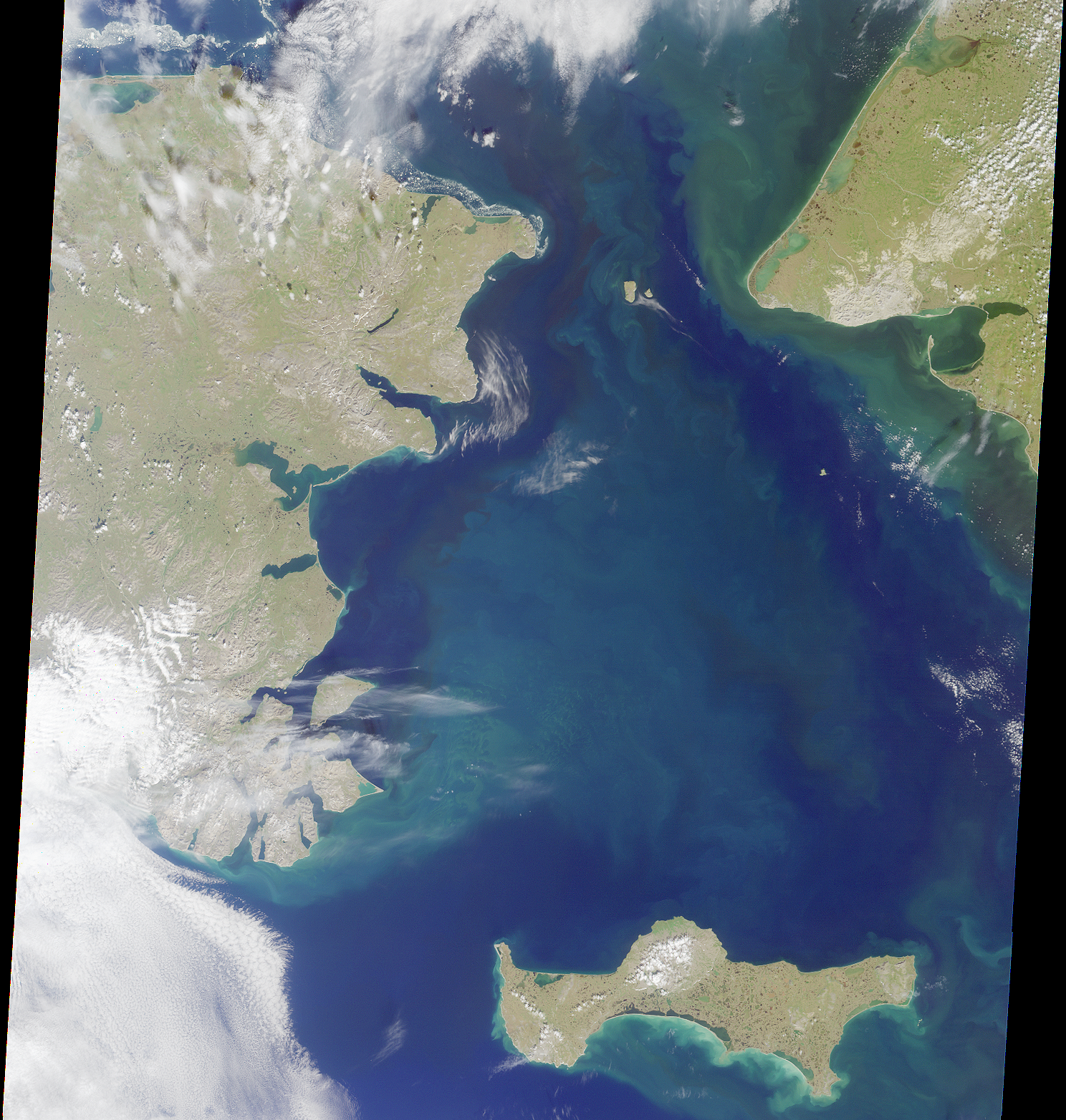 The Bering Strait